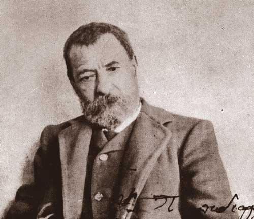 Alexandros Papadiamantis in 1908. Below on the right his signature.